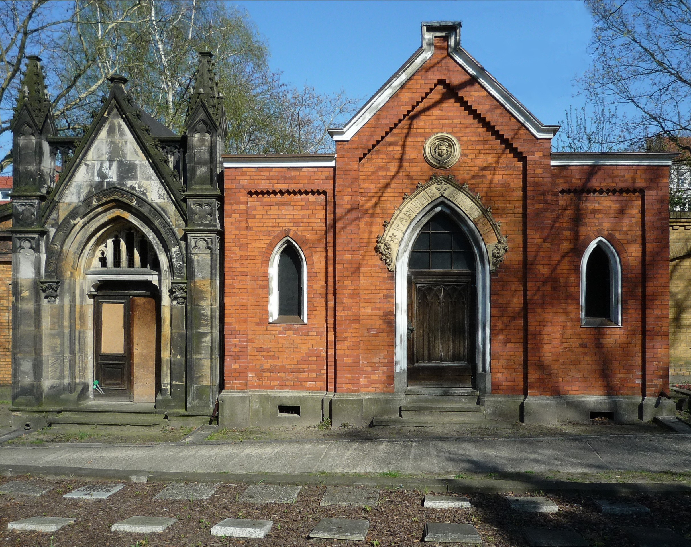 Old St. Matthew's churchyard in Berlin-Schöneberg. Gravesite of the family Strousberg (right).